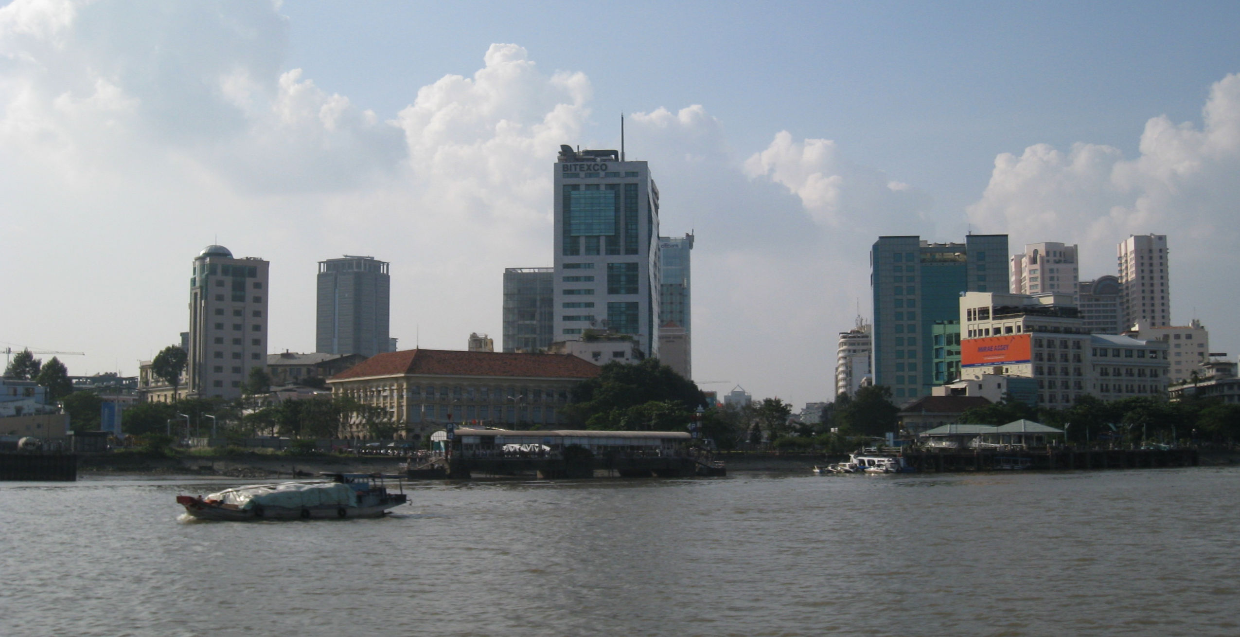 Downtown Ho Chi Minh City seen from Saigon River